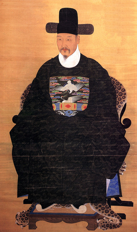 Portrait of Park Munsu, Treasure of South Korea No. 1189-1